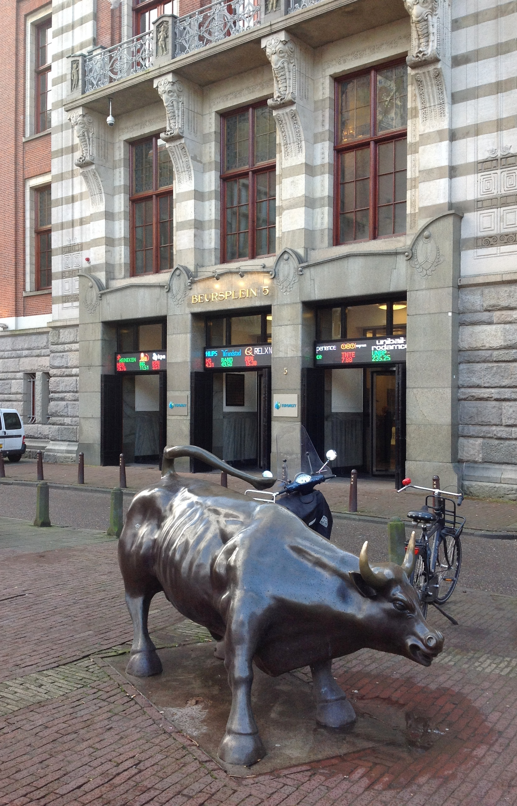 Detail entree Amsterdam Stock Exchange, with the bull in front